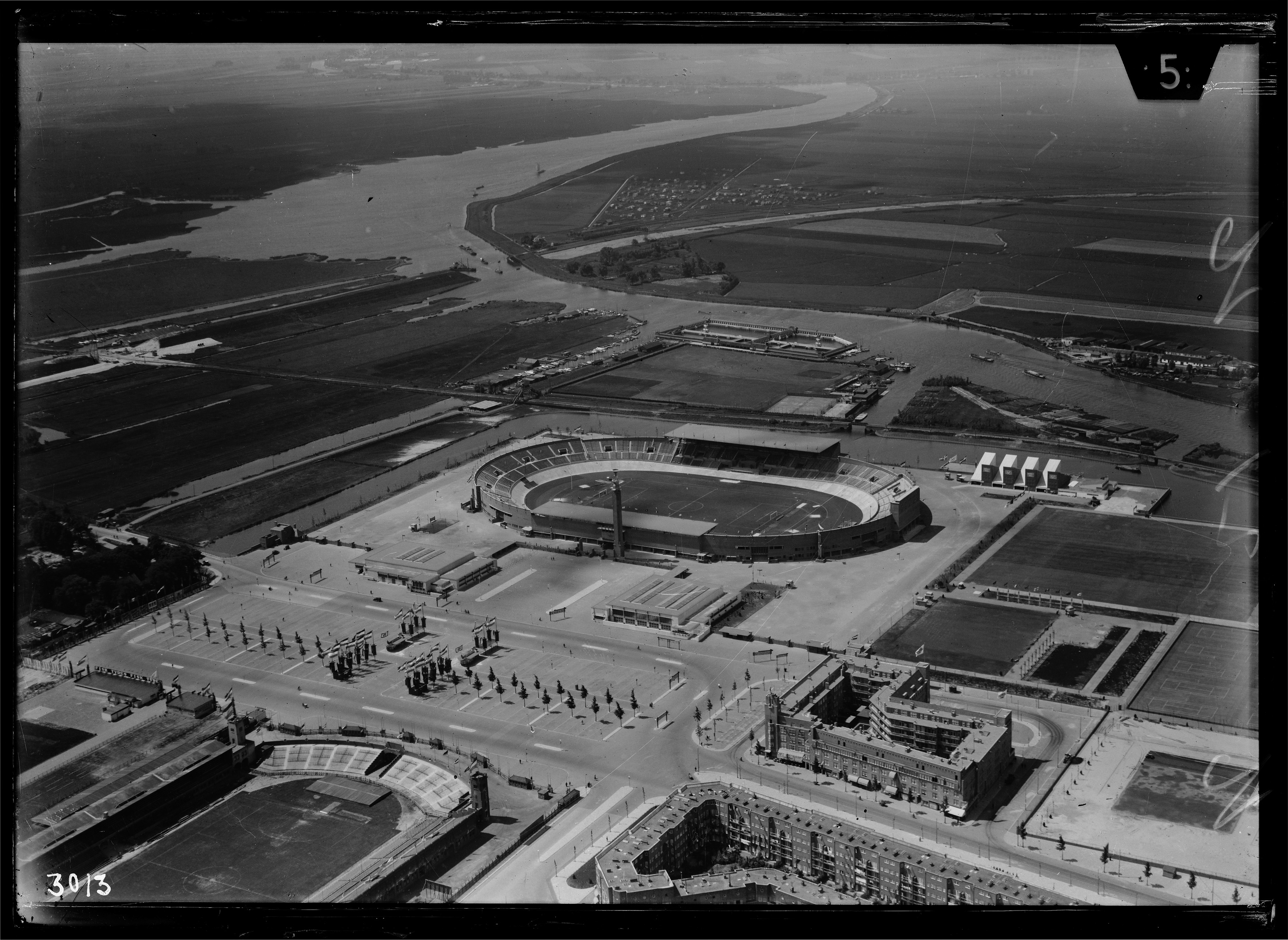 Aerial photograph of Amsterdam, The Netherlands. Olympisch Stadion.